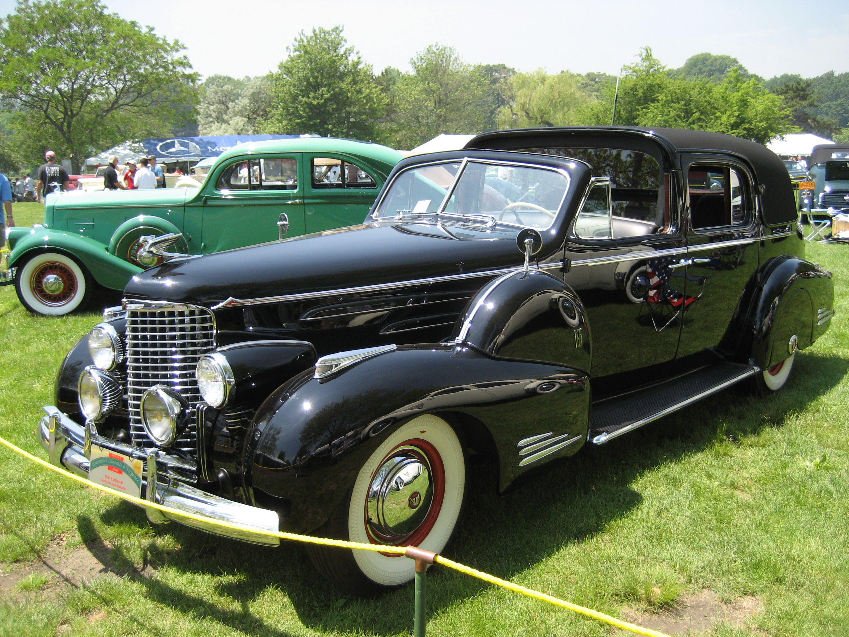 1940 Cadillac 90 Town Car photographed at the 2008 Greenwich Concours d'Elegance in Greenwich, Connecticut.